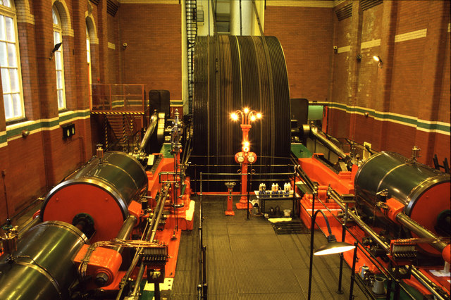 J & E Wood horizontal twin tandem triple expansion engine built 1907 and developed 2100 horsepower. Now preserved by the Council and operated on steam. It is now repainted in green following a £600,000 overhaul. Trencherfield was an Edwardian cotton spinning mill and is a fine example of the genre.